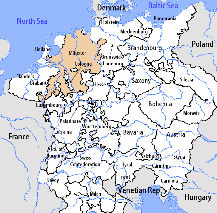 The Lower Rhenish-Westphalian Circle during the early 16th century.